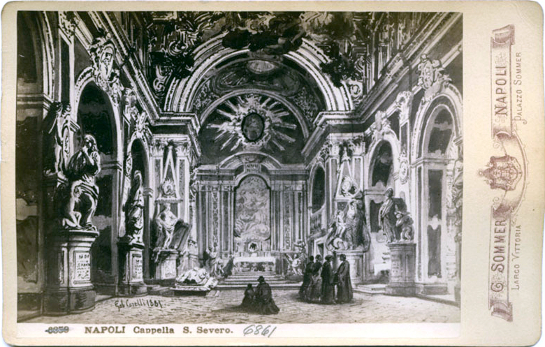 Giorgio Sommer (1834-1914), "Naples - San Severo chapel". Fotograph of a painting signed "Carelli, 1881". Catalogue #: 6861.